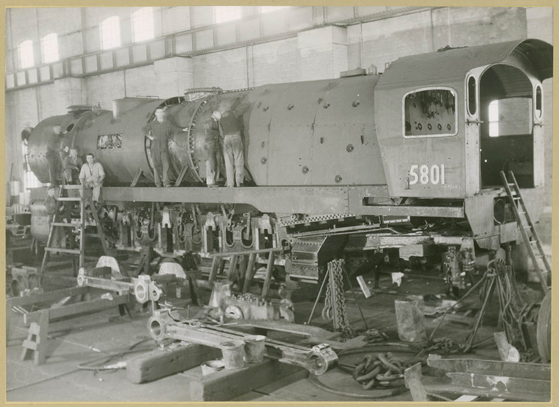 Building goods locomotive 5801, Eveleigh Workshops, Redfern, Sydney, 1949. R. Bean Class leader of New South Wales Government Railways & Tramways 58 class goods locomotive. Twenty-five of these large steam locomotives were planned but only 13 were built as they were not as successful as the previous 57 class on which they were based and they were phased out as diesel came in.